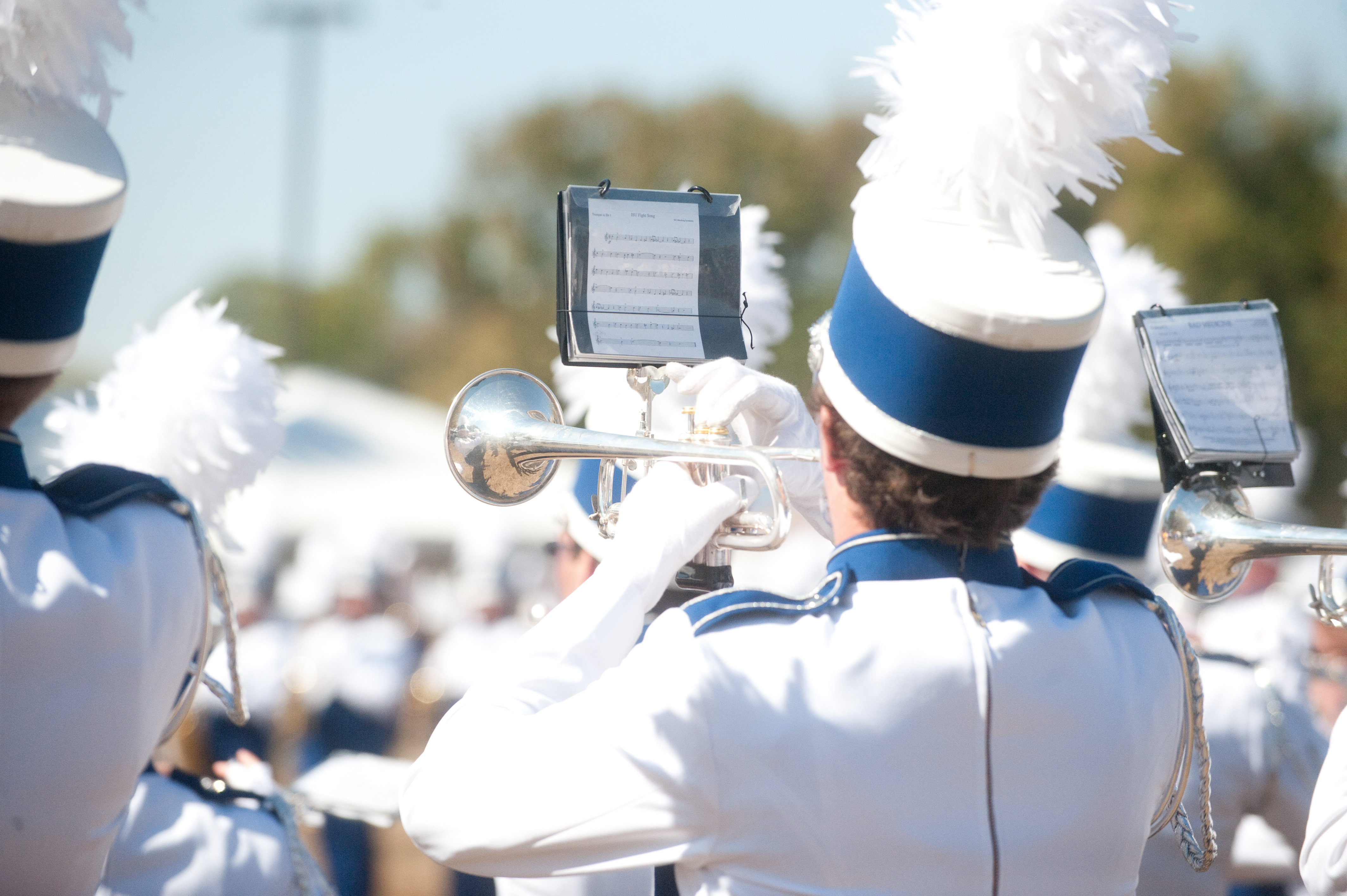 Indiana State University marching band performing at Homecoming.